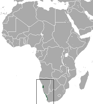 Grant's Golden Mole (Eremitalpa granti) range